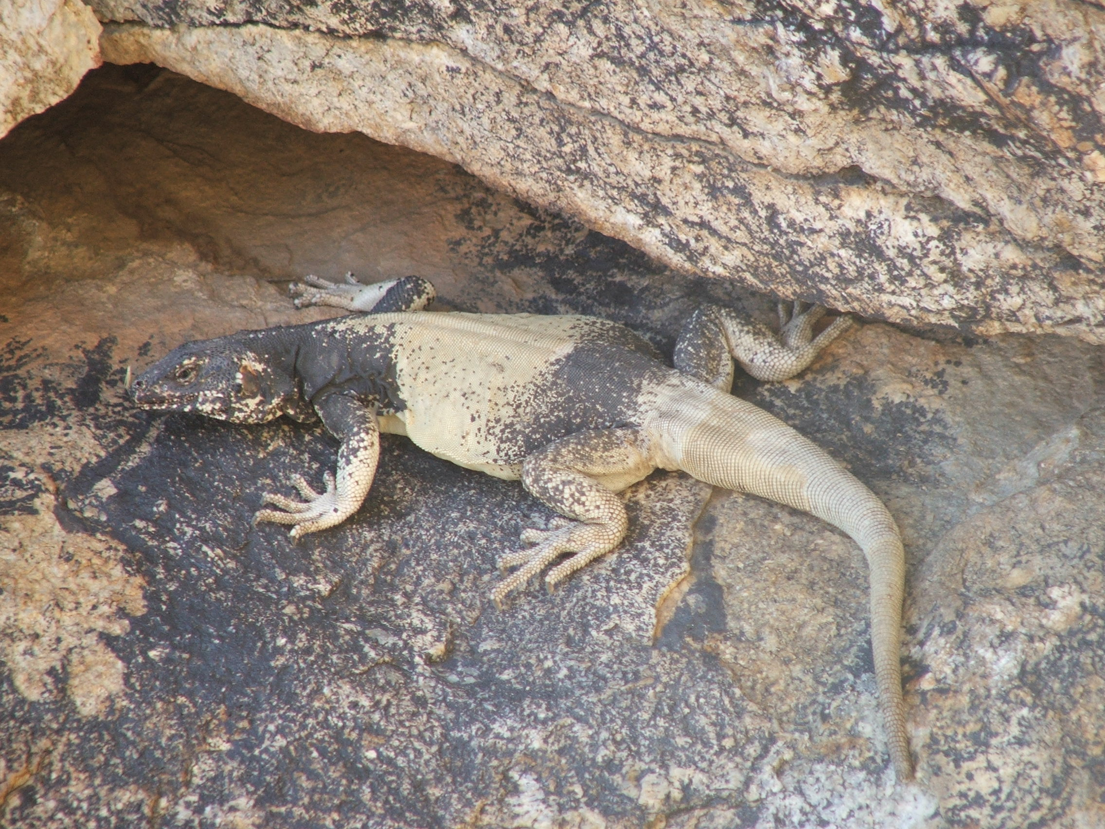 Common Chuckwalla, Sauromalus ater, in the Anza-Borrego Desert State Park, California. Observed during hike up Palm Canyon.